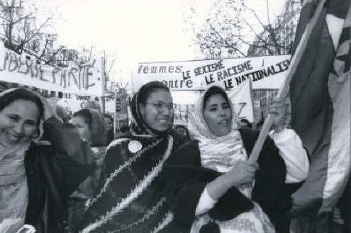 November 1995 - Protest in Paris for women's rights This large protest organized by many feminist associations reaffirms all of the demands of women, including abortion and employment rights. There are also many immigrant and exile women present. Here are Sahrawi and Algerian women. Photograph by Francine Bajande, from the exhibition "Traces, mémoires, histoire des mouvements de femmes de l'immigration en France".